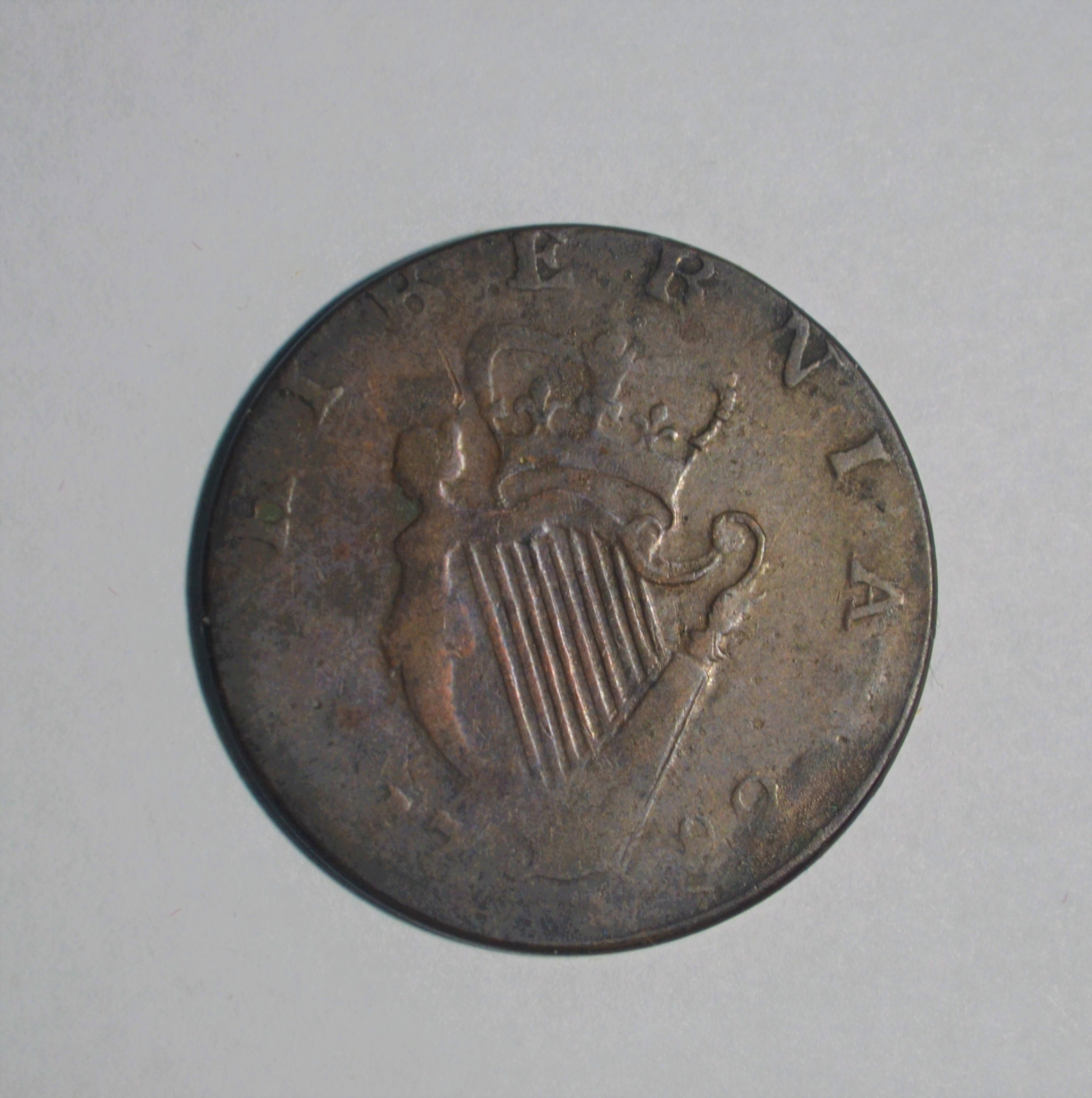 George III counterfeit halfpenny, Irish reverse